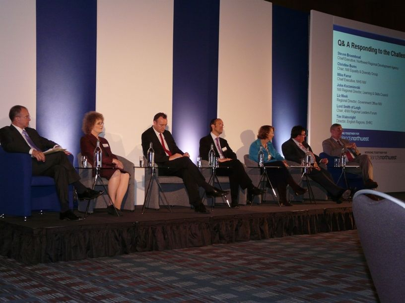 Christine Burns MBE joins the Chief Executives of the North West Development Agency and NHS North West, plus senior executives from the Regional Assembly and Equality and Human Rights Commission in a question and answer session at the North West annual Equality and Diversity Conference in Manchester, September 2008